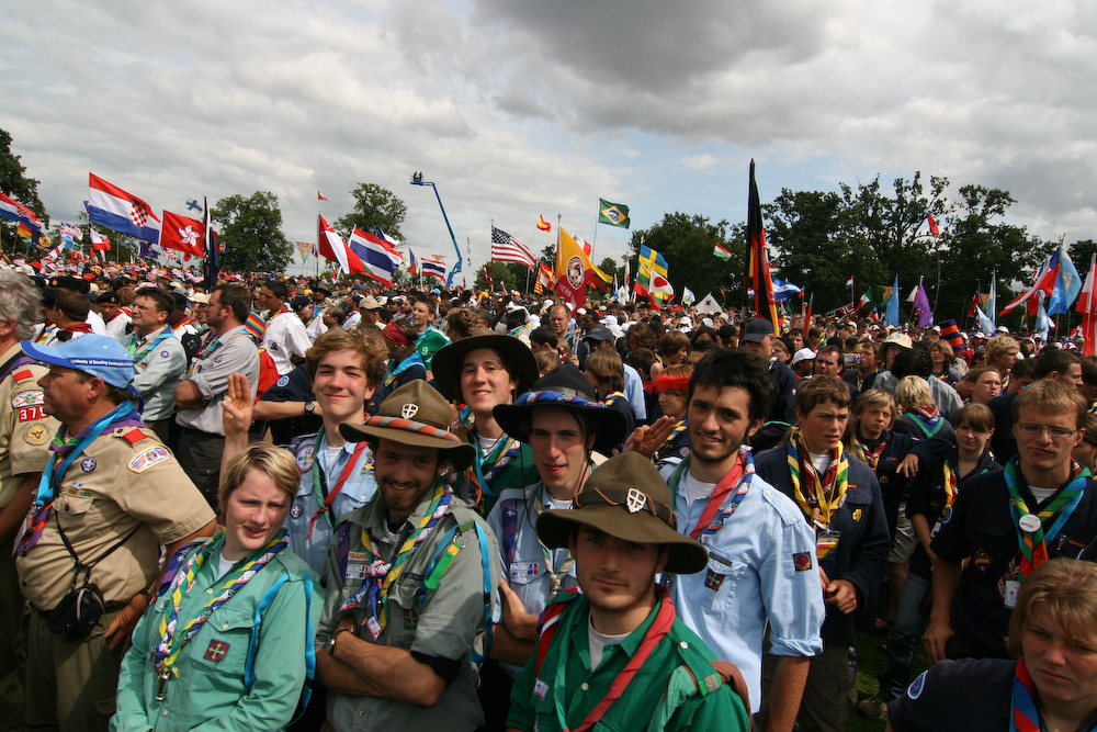 Part of the crowd of scouts listening to the opening ceremony of the 2007 World Scout Jamboree. In the foreground, French IST members.